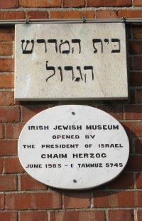 Wall plaques, centre of front elevation, Irish Jewish museum, Dublin, Ireland.